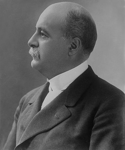 Eben Sumner Draper, Governor of Massachusetts between 1909 and 1911